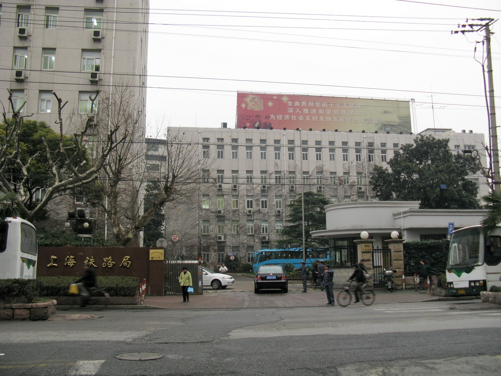 Shanghai Railway Bureau